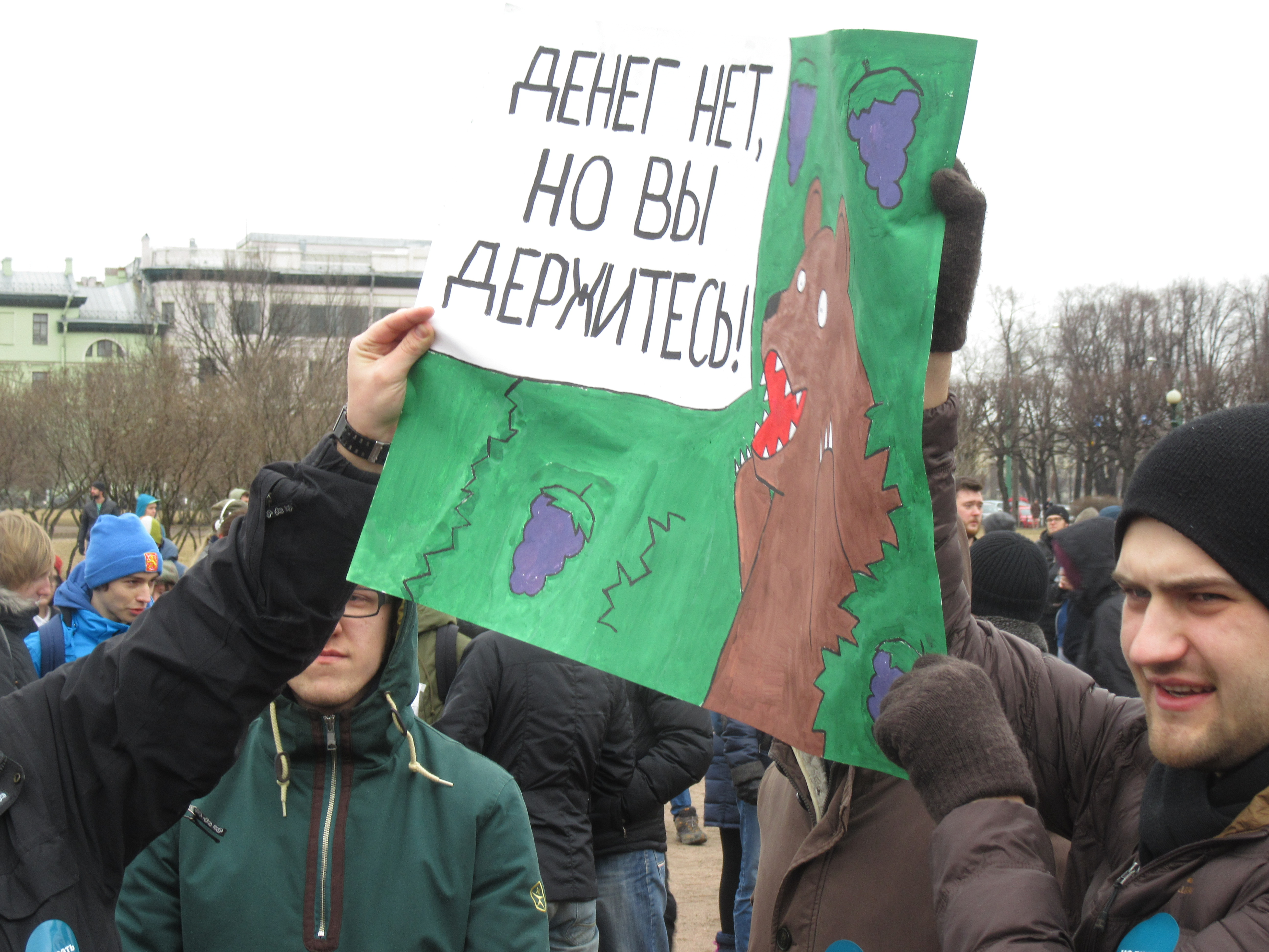 Anti-Corruption Rally in Saint Petersburg (2016-03-26)